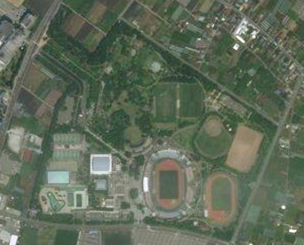 Yamagata Prefectural General Sports Park